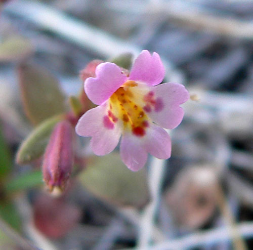 Mimulus rubellus on the lower slope of Fossil Ridge, Blue Diamond Hill, Spring Mountains, southern Nevada